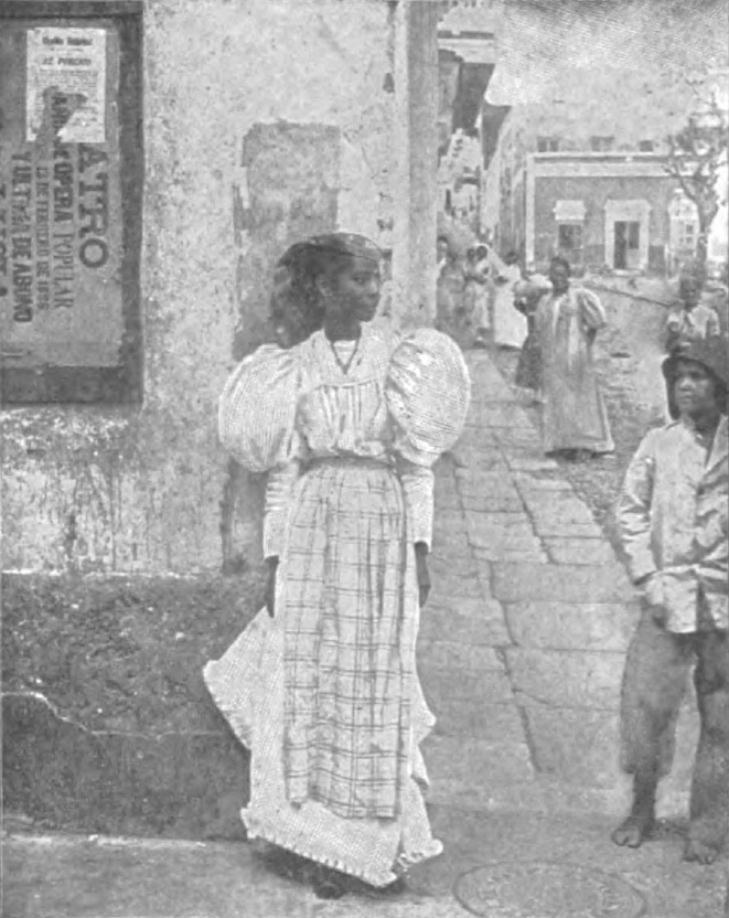 Quadroon type at Ponce, Puerto Rico. Page 381.